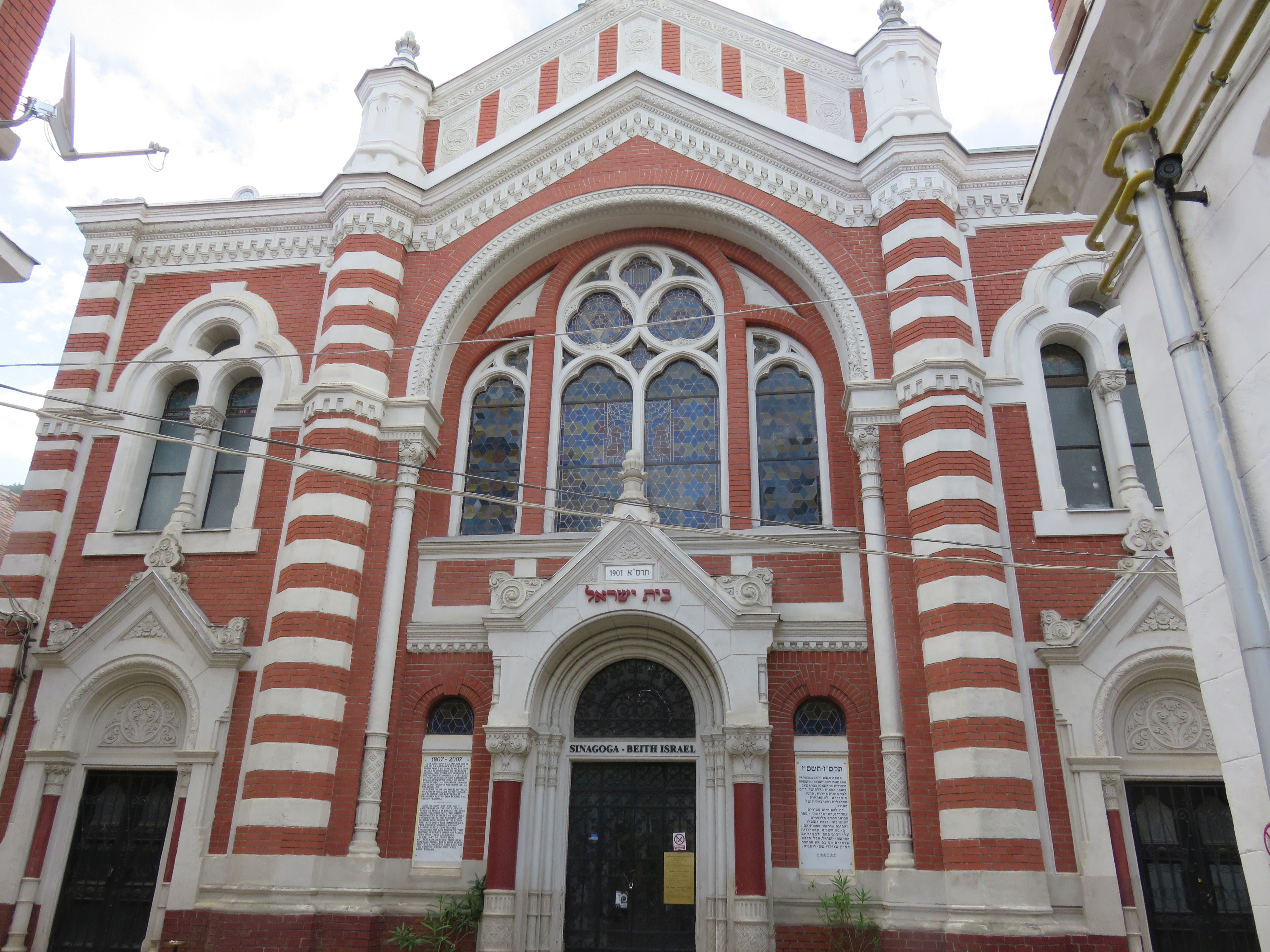 Jewish Synagogue of Brasov, Romania